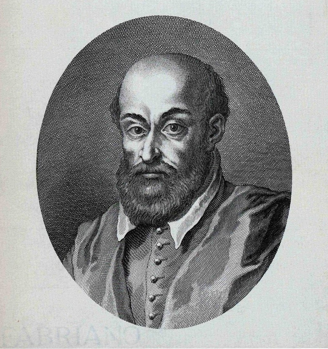 Portrait of Lodovico Castelvetro (1505-1571), Italian philologist and literary critic of Renaissance, engraving from Opere varie critiche, published by Stamperia Palatina, 1727, Milan